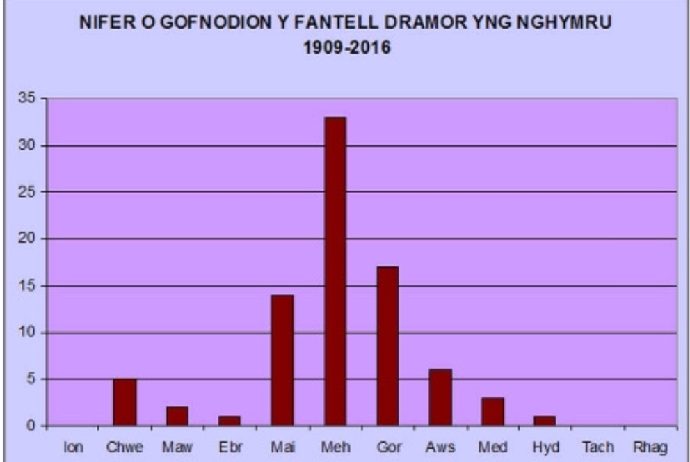 A graff (fenogram) to show the the monthly frequency of painted lady Vanessa cardui yn Wales between 1909 and 2016